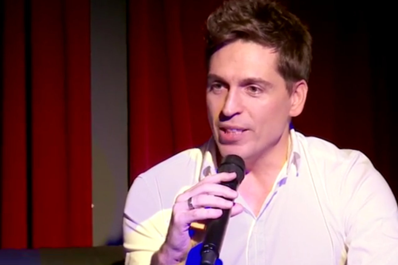 Actor and singer Michael Falzon mentoring at The Greenroom Project at The Arts Centre, Gold Coast in July 2013